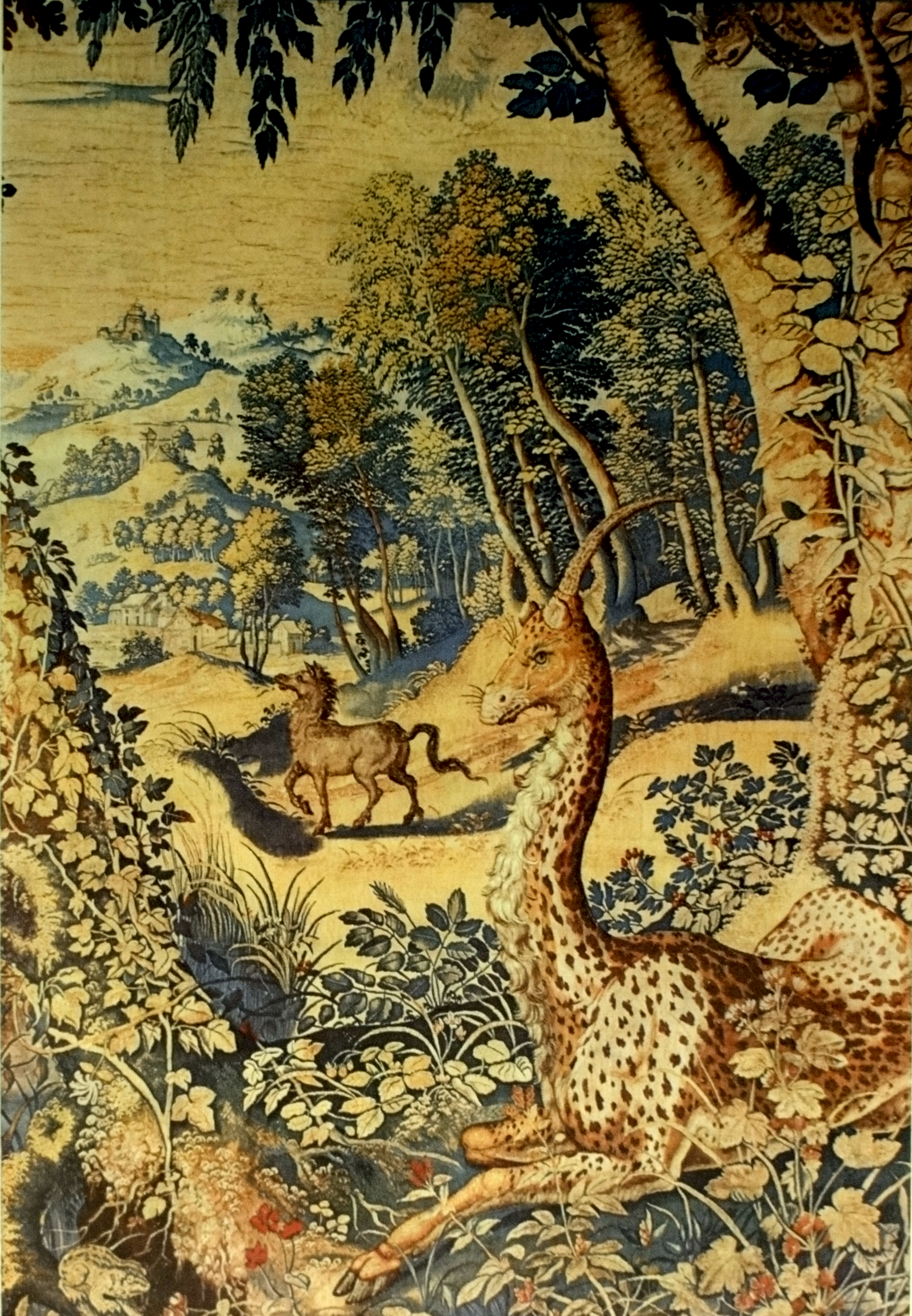 Unicorn. Detail of Lynx and Unicorn, an arras (tapestry) woven in Brussels according to Michiel Coxie's design. Part of King Sigismund Augustus's collection of Wawel arrases.